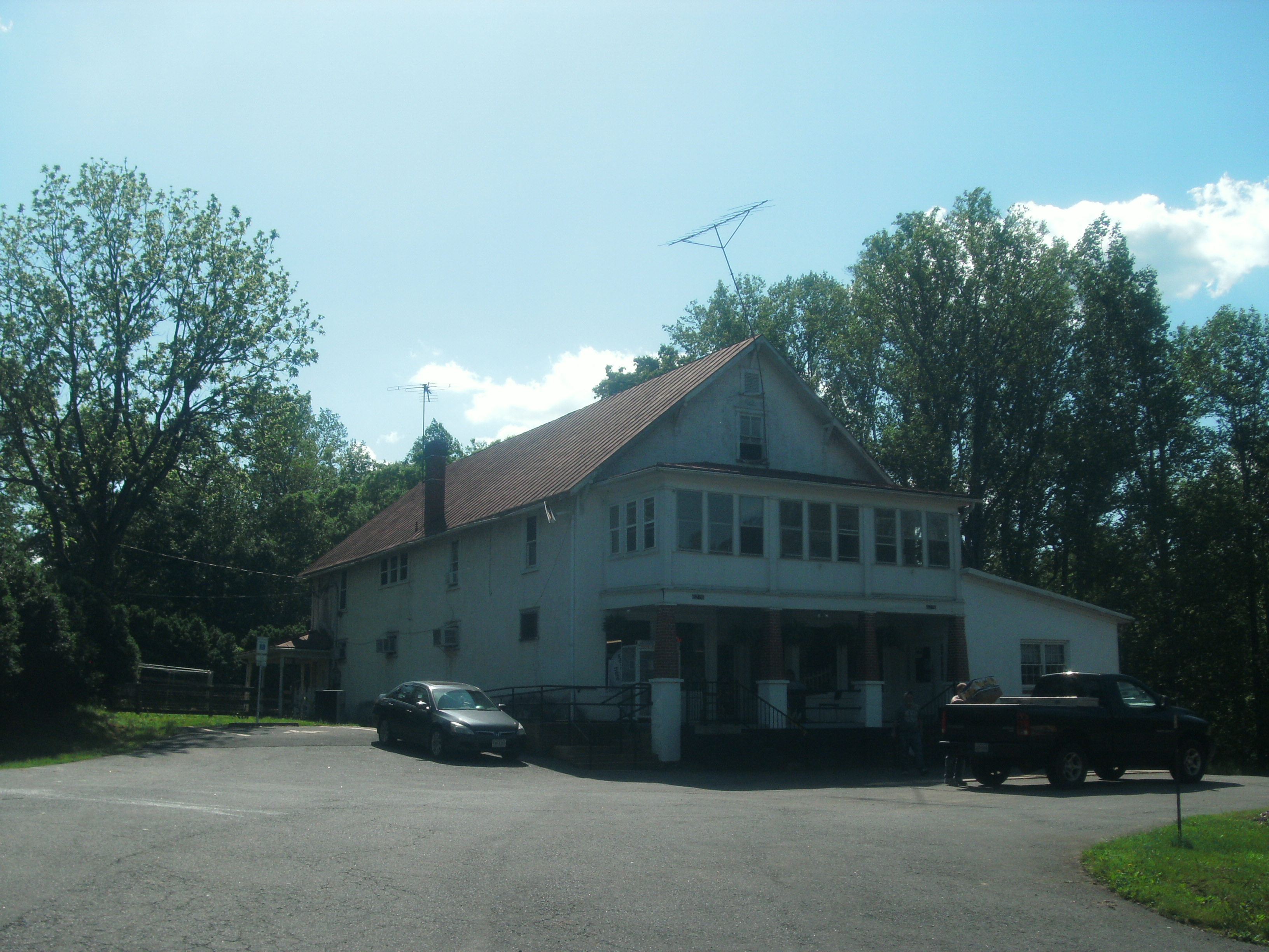 Taken by me in May, 2016 GEDSC DIGITAL CAMERA